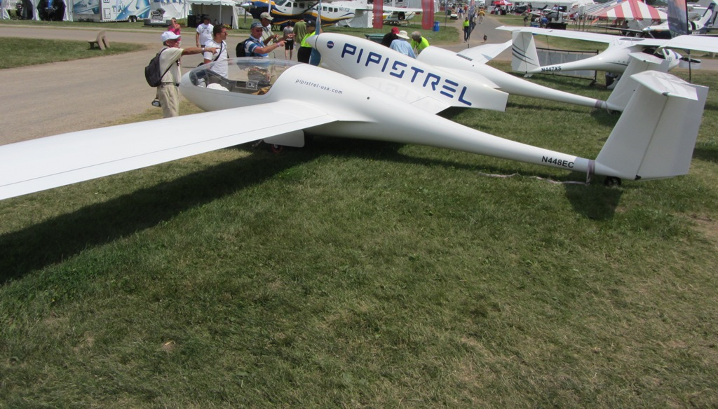 Pipistrel Taurus G4